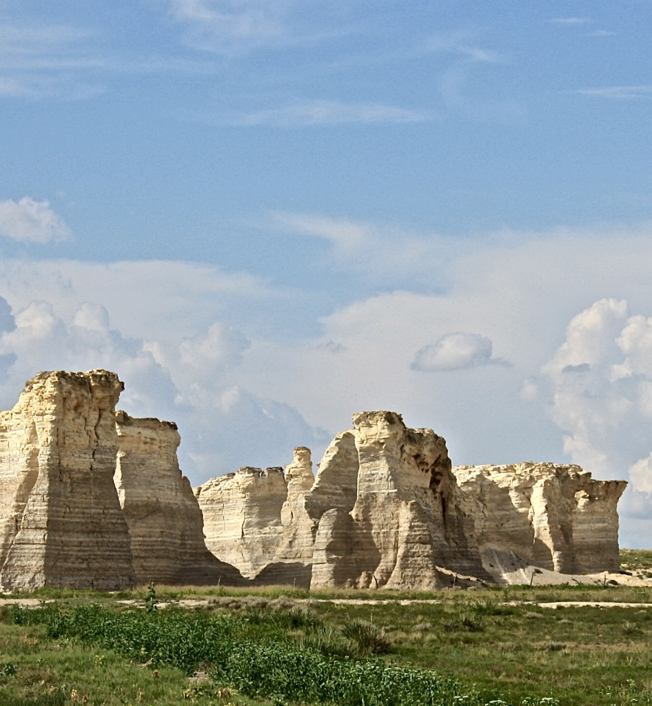 Monument Rocks, Gove County, Kansas